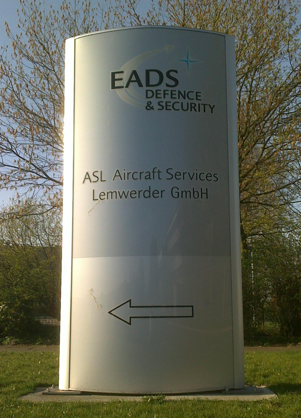 plate of entry